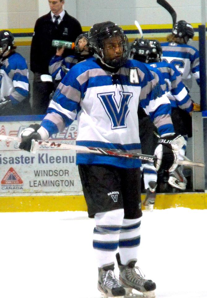 This photo was taken by Devan Mighton during the 2014-15 WECSSAA season.